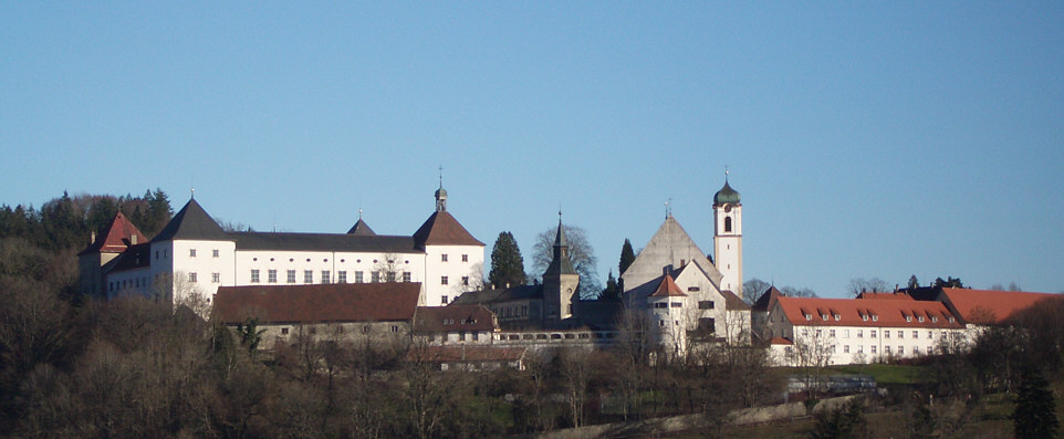 Palace and church in Wolfegg, Germany